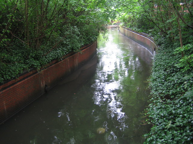 Wealdstone Brook in Kenton. A wet day and water is gushing out of the stormwater drains into the brook in this view taken as it snakes downstream from the footbridge linking Shaftesbury Drive with Lidding Road. The brook is certainly wider here than downstream in the next grid square 477324